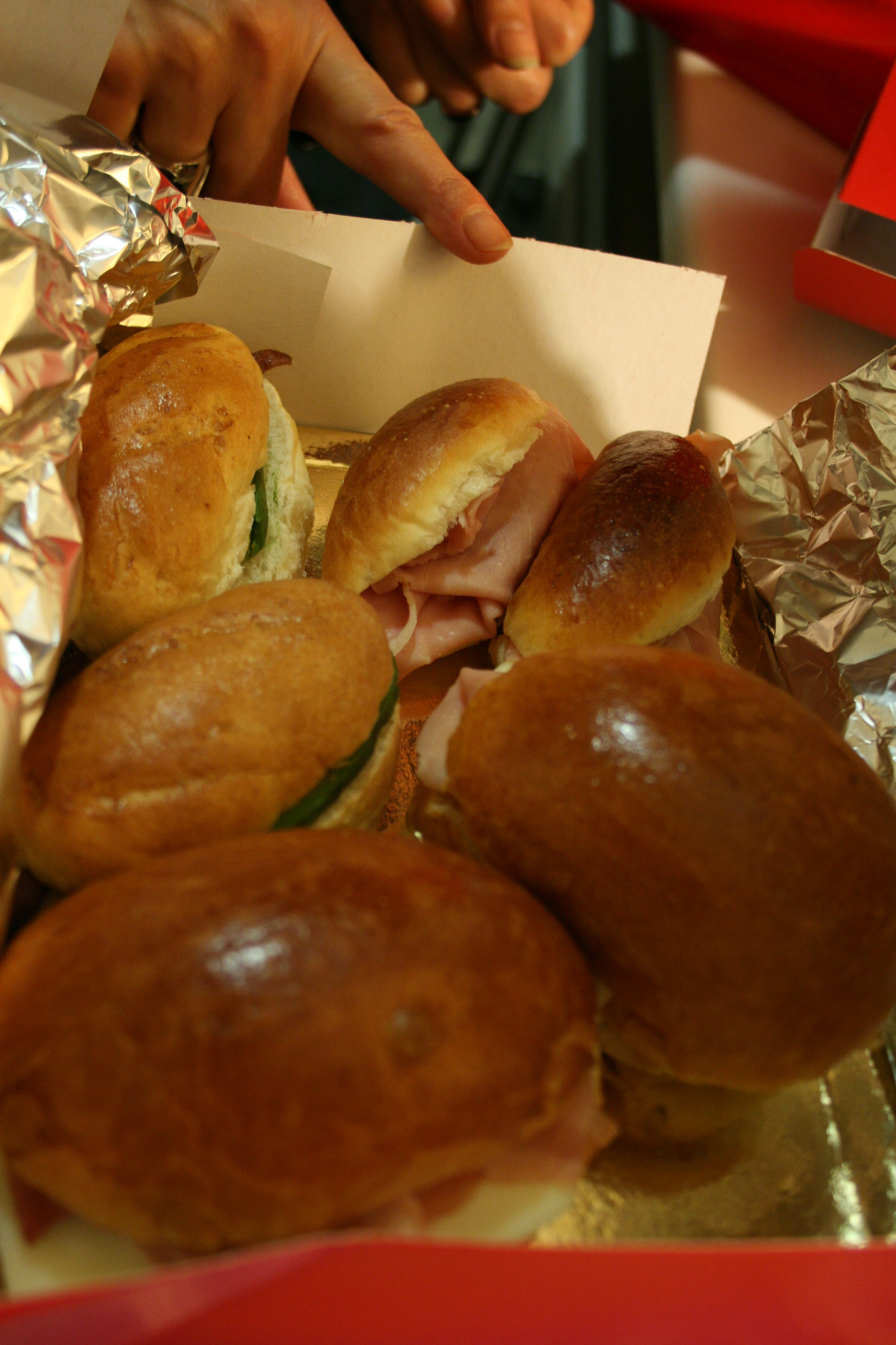 Sandwiches - Medianoches